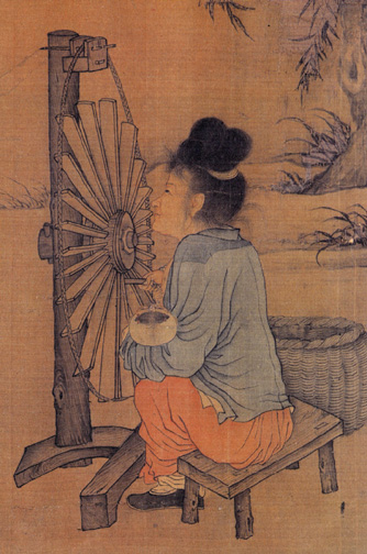 Close-up detail of a female figure from the right half of the Chinese artist Wang Juzheng's handscroll The Spinning Wheel. Deng Yingke and Wang Pingxing, on page 48 of their Ancient Chinese Inventions (2005, published by 五洲传播出版社, ISBN 7508508378) suggest an alternative title for this painting as The Making of Silk Fabric by Wang Juzheng, Northern Song Dynasty.